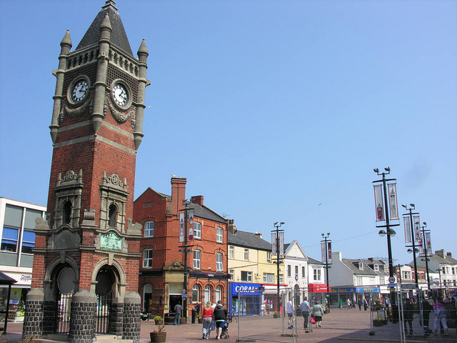 High Street from the west The western end of the High Street, overlooked by the Town Clock.